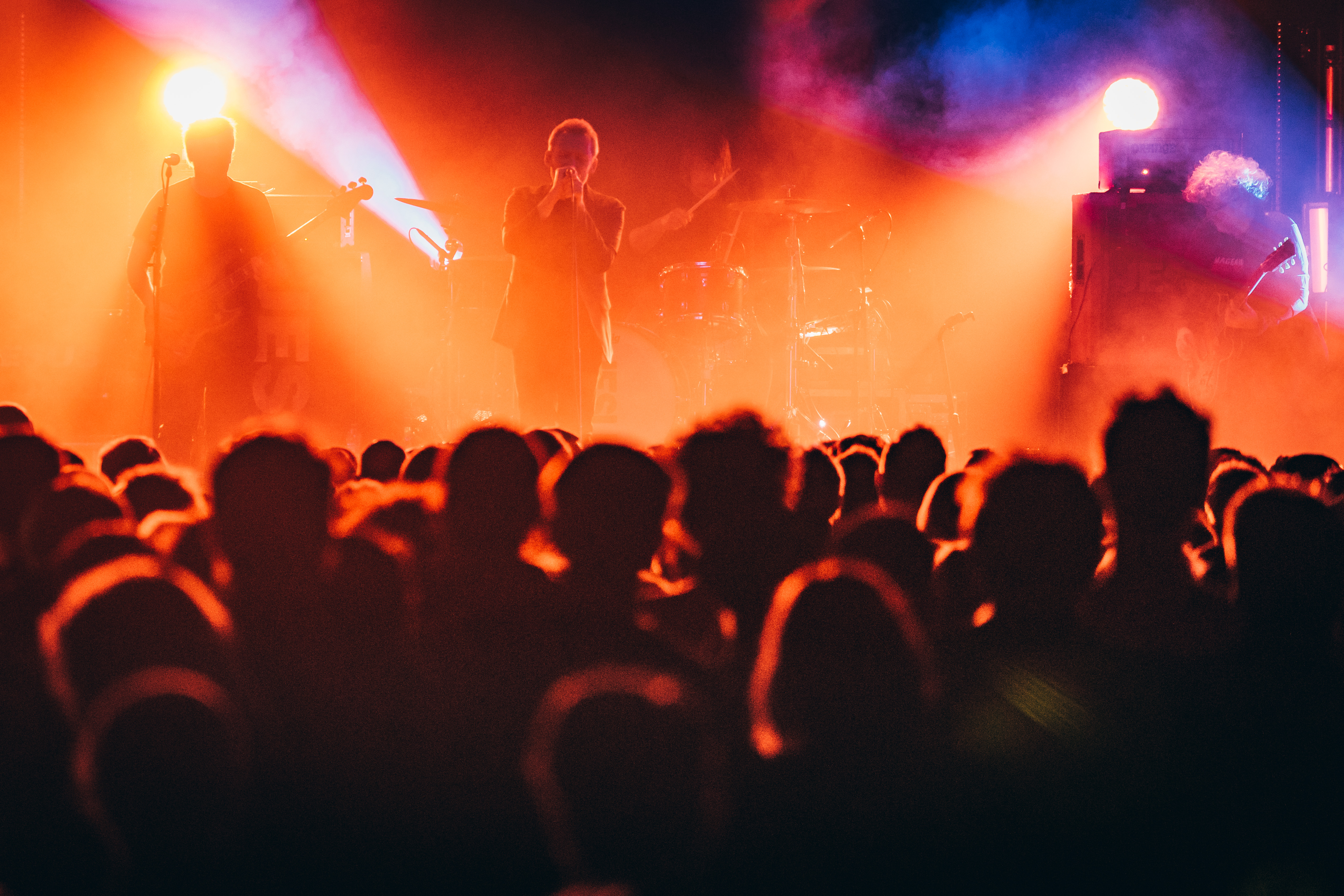 The Jesus and Mary Chain